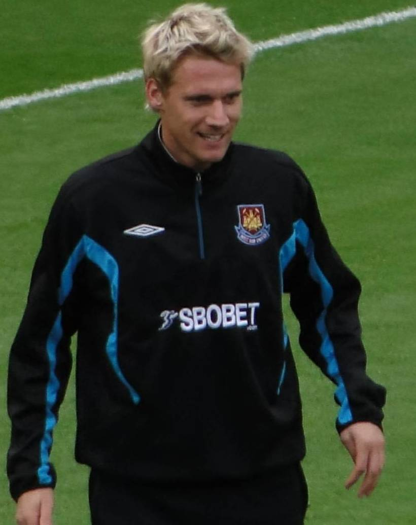 West Ham's Radoslav Kováč warming-up before their game against Everton, 8/11/09